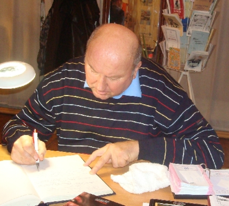 Alexander Korzhakov in the Museum of diplomatic corps (Vologda)